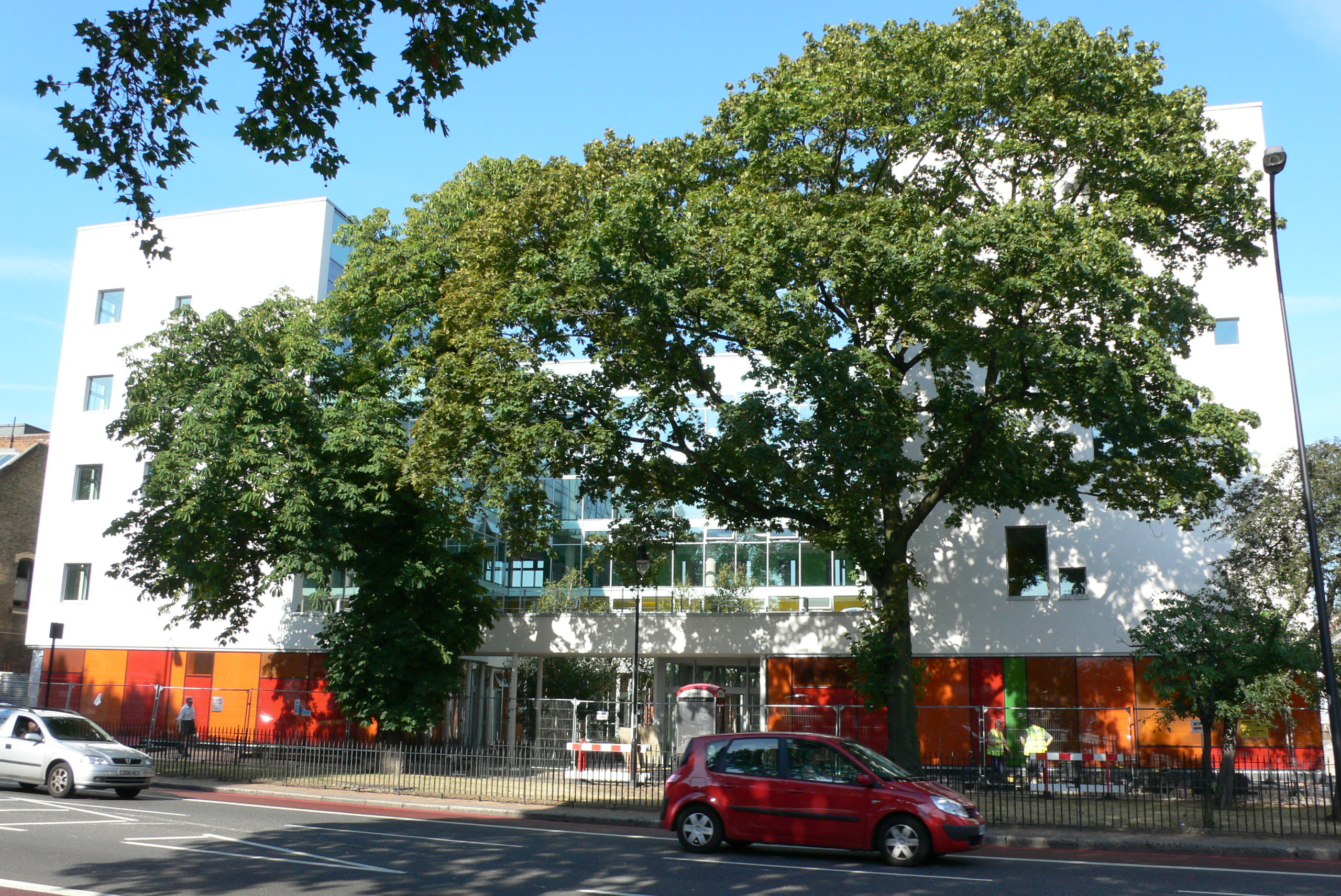 View from Rushey Green of facade of new PCT facility. Opened in 2006 and designed by van Heyningen and Haward Architects.